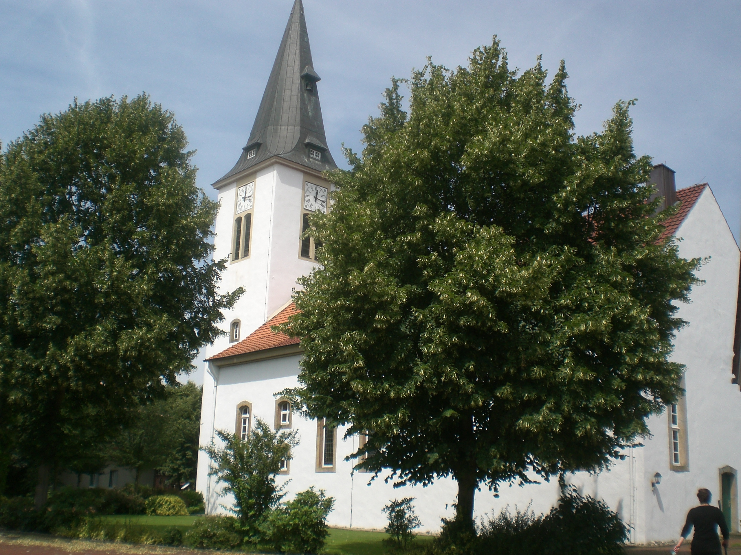 The lutheran church in Vörden, Neuenkirchen-Vörden, Lower Saxony, Germany